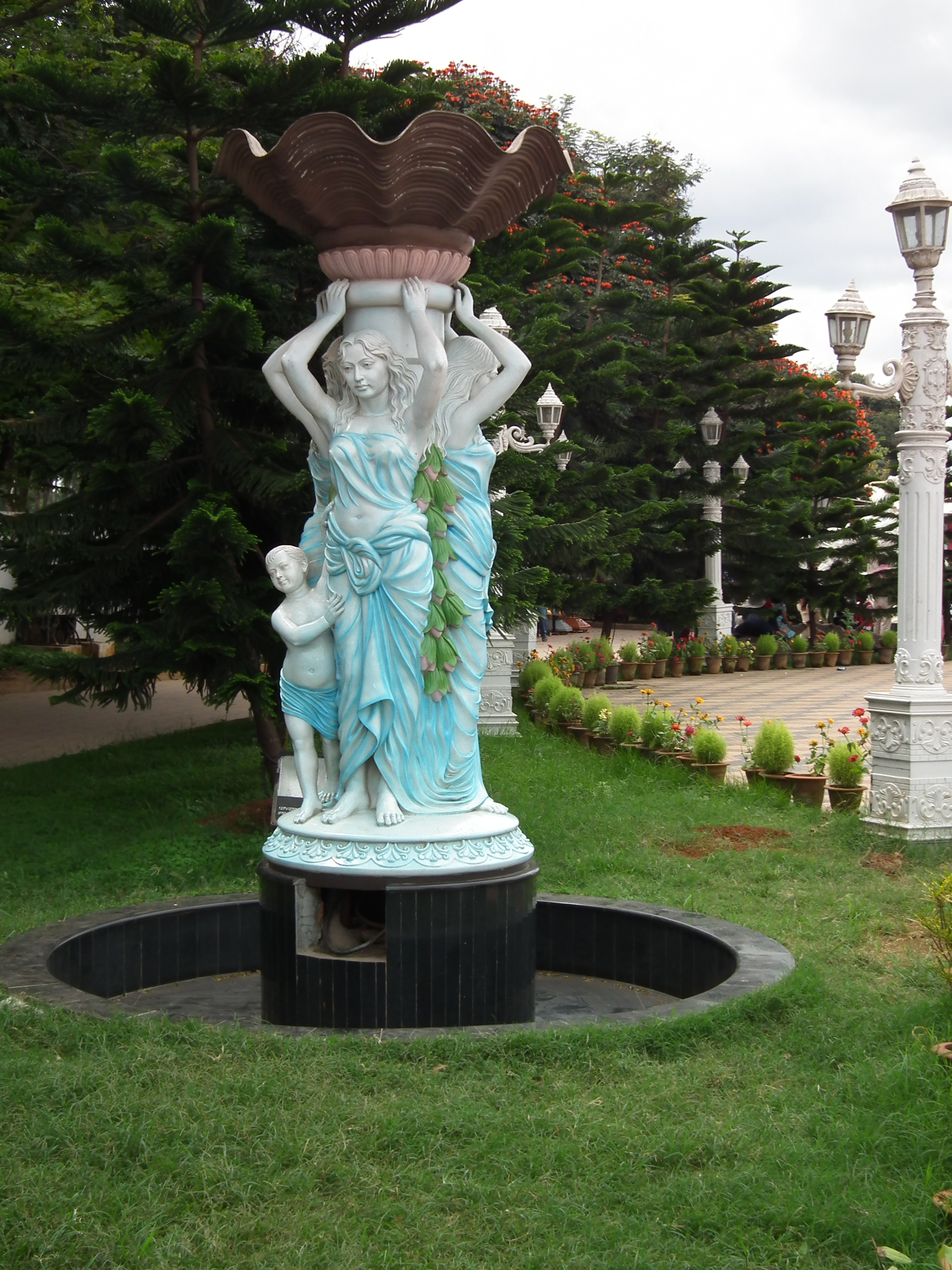 View from Lumbini Garden, near to Nagwara lake, Bangalore.